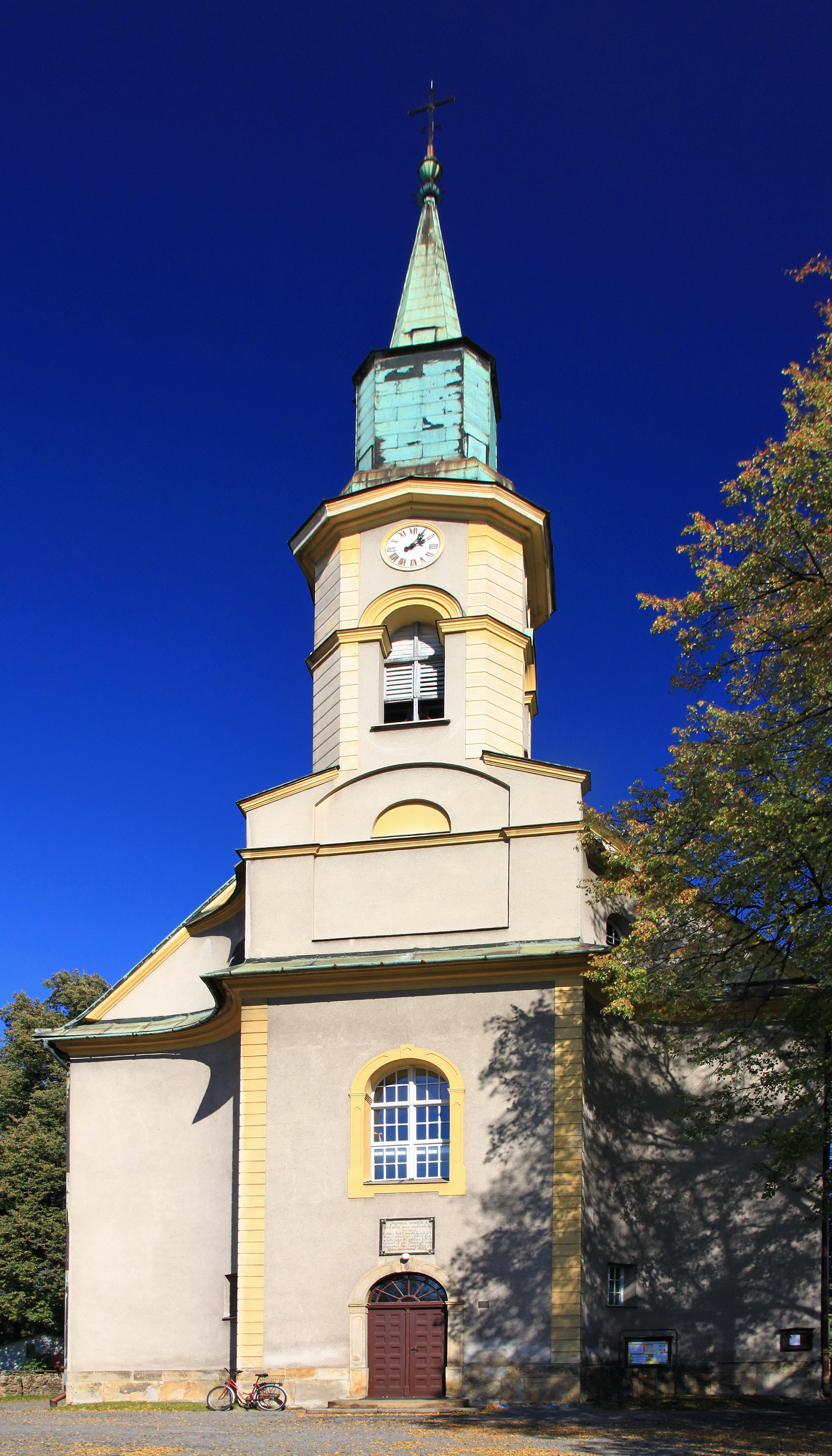 Lutheran church. Návsí, Moravian-Silesian Region, Czech Republic.